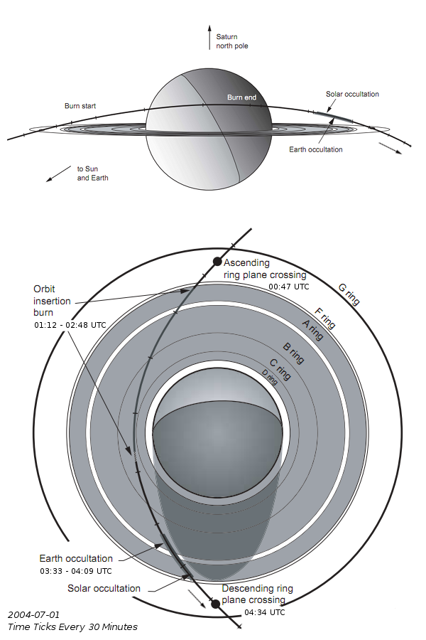 Cassini-Huygens probe Saturn arrival geometry.